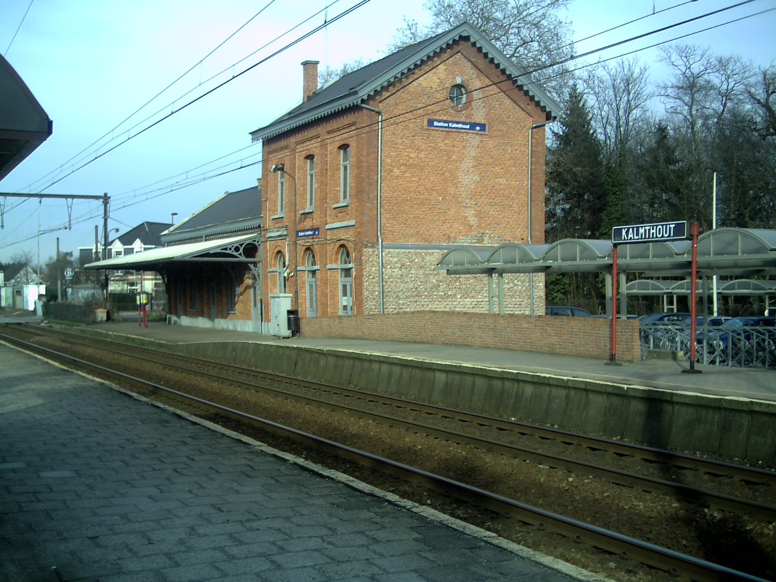 The railway station at Kalmthout in Belgium